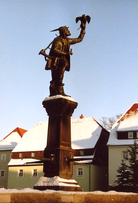 This image shows the falconer's fountain in Lauenstein in the Ore Mountains in Saxony, Germany.